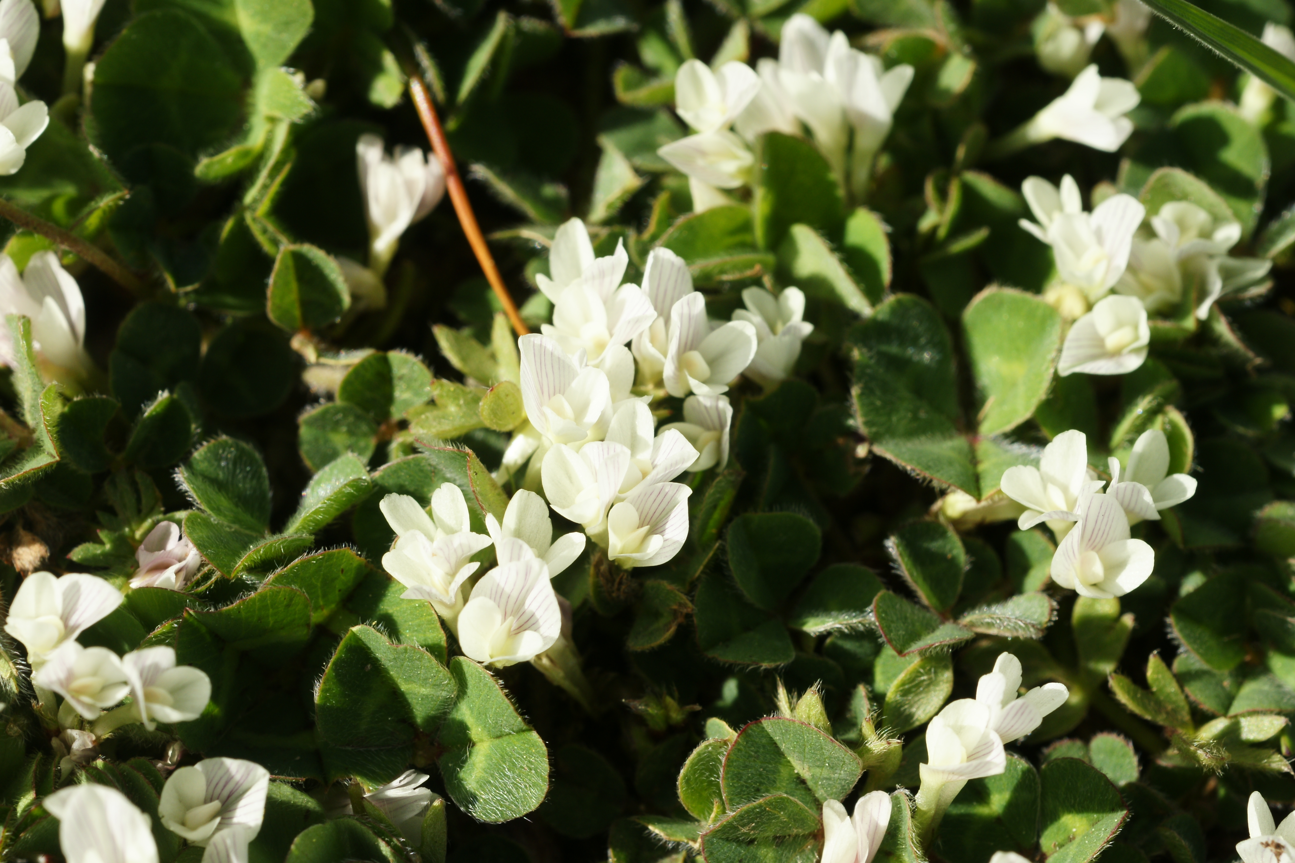 Oneflower clover, Sardinia, Italy (det. user:RLJ)